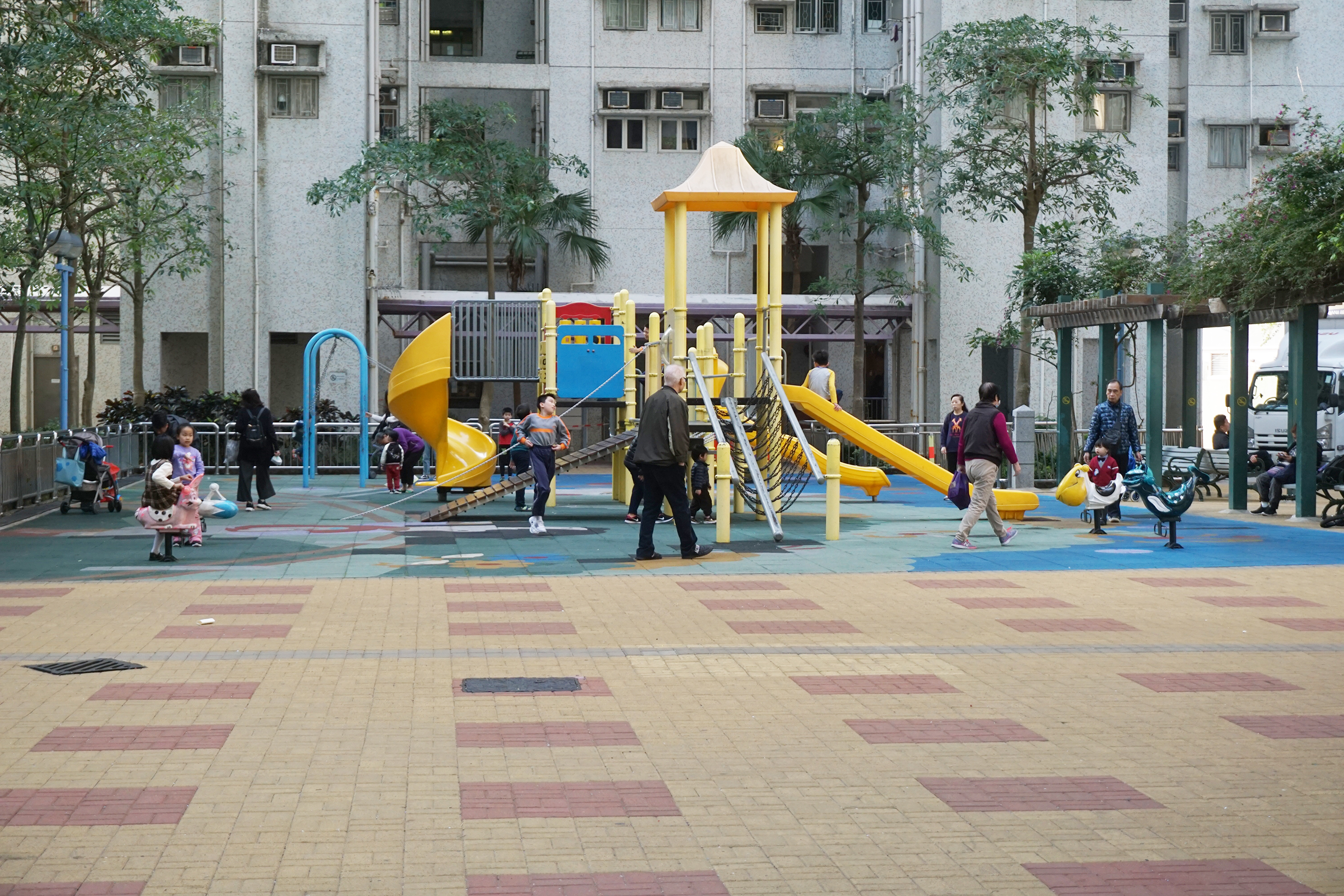 Beverly Garden in Tseung Kwan O, Hong Kong.